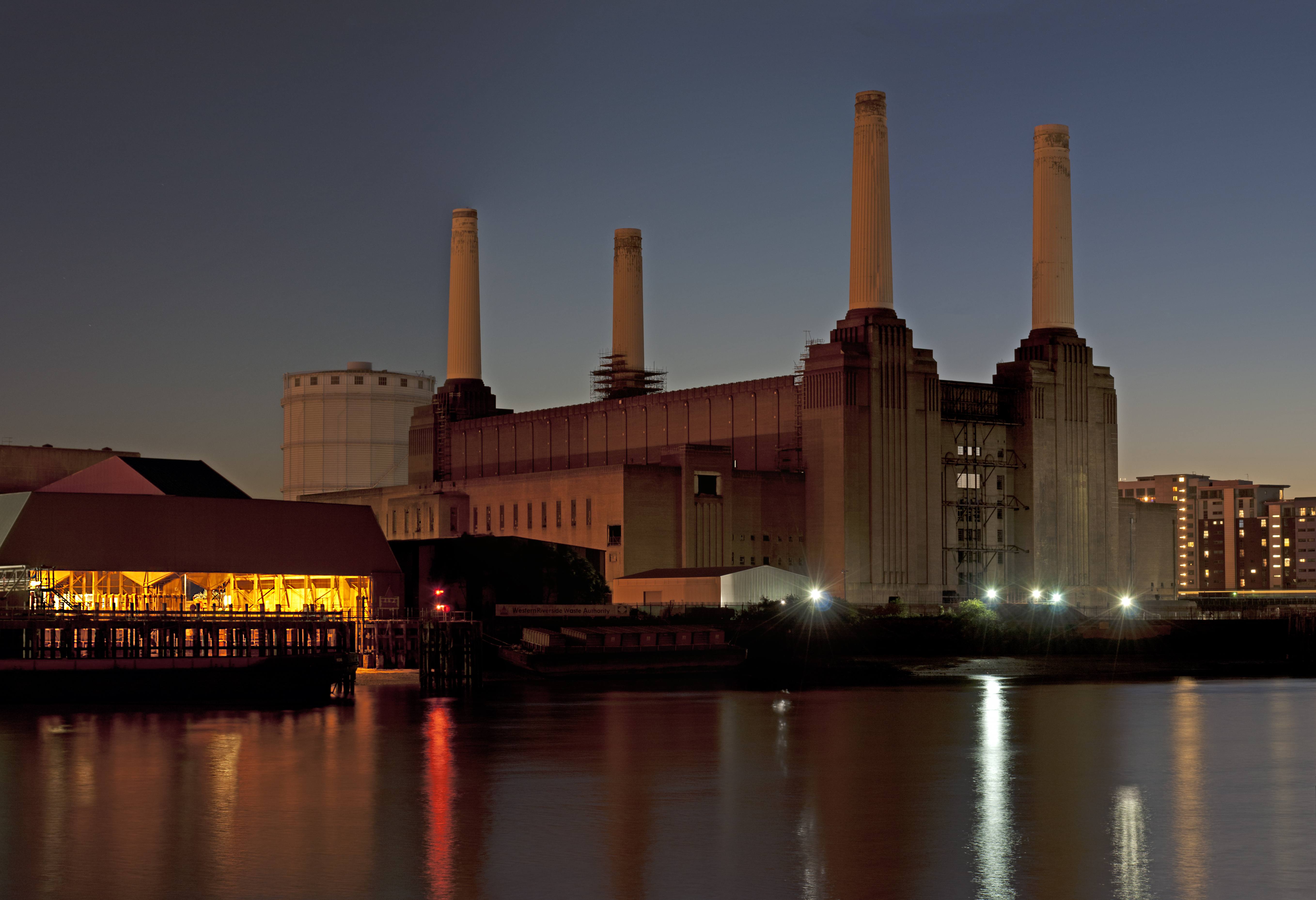 Battersea Power Station, Nine Elms, London. Photo taken from the north embankment of Thames.